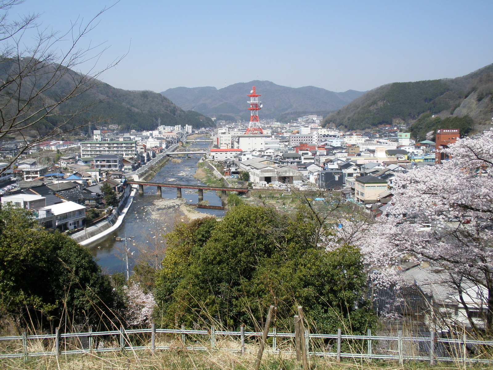 Central Niimi seen from Joyama park.